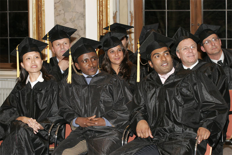 Absolvia MIPLC